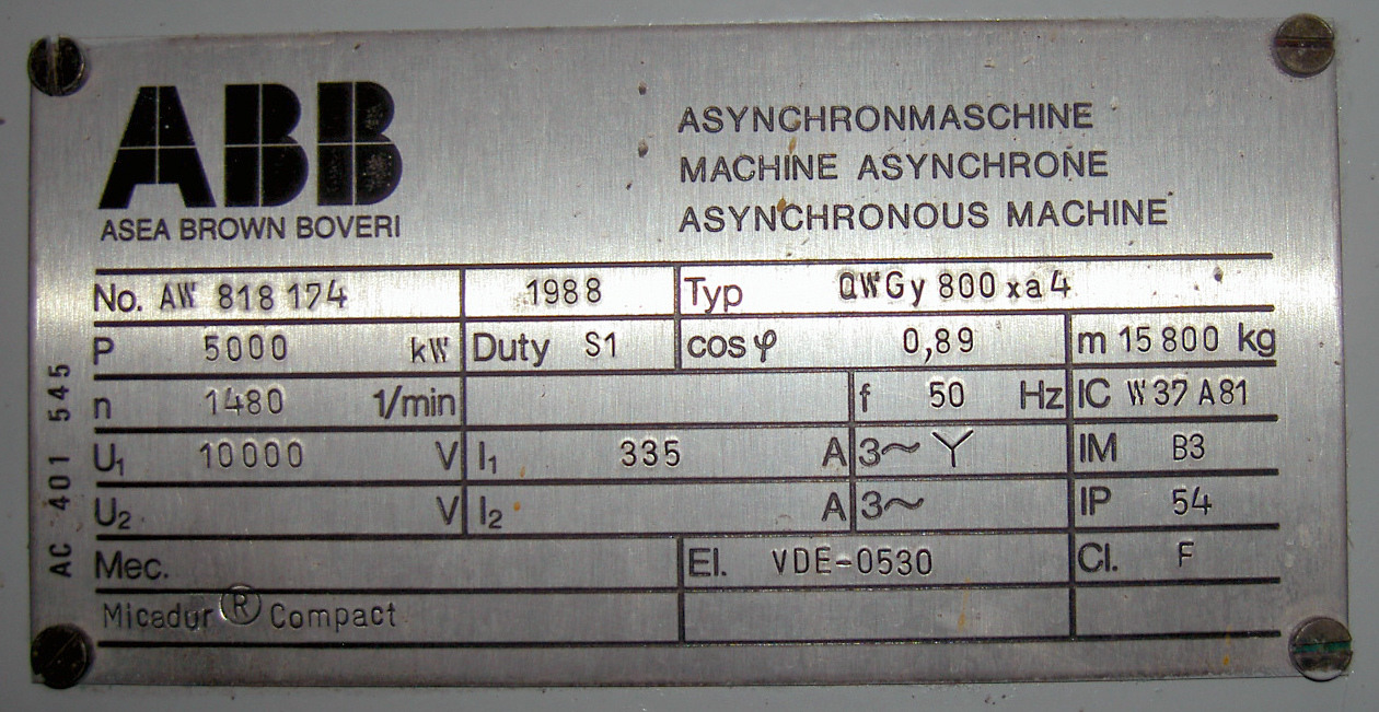 Type-Sign of Electric motor